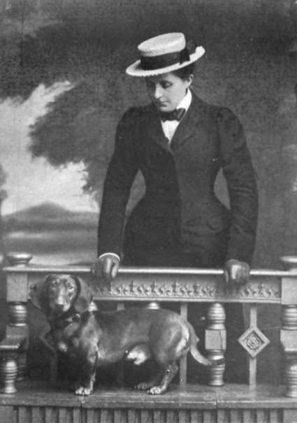 Mary Louisa "Mollie" Martin (1865-1941), Irish tennis player, 9 times winner at the Irish championships